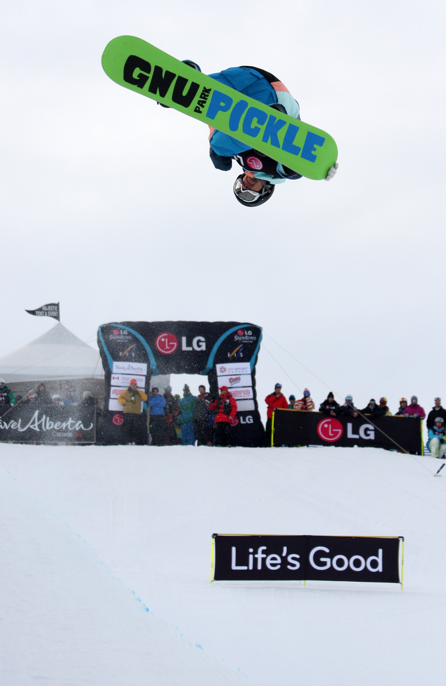 Calgary_HP_Mathieu_Crepel_FRA_02